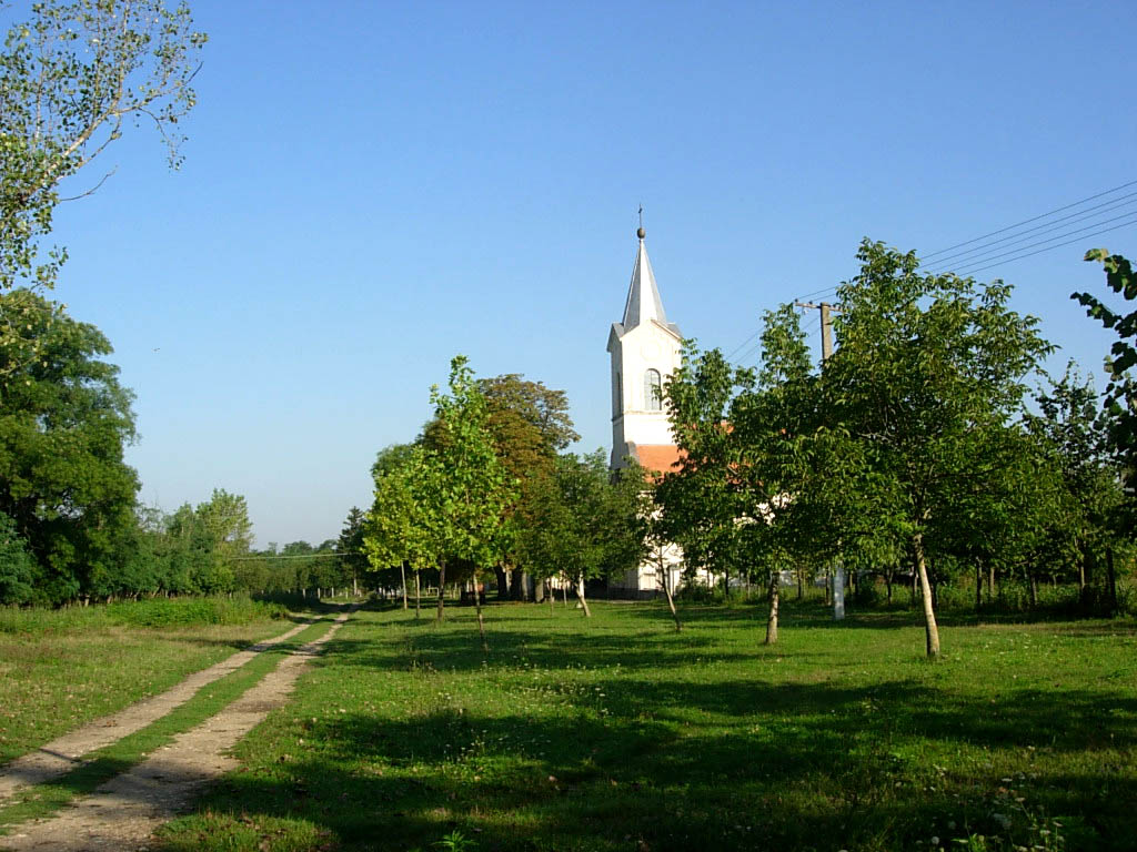 The St. John Nepomuk Catholic Church in Češko Selo.